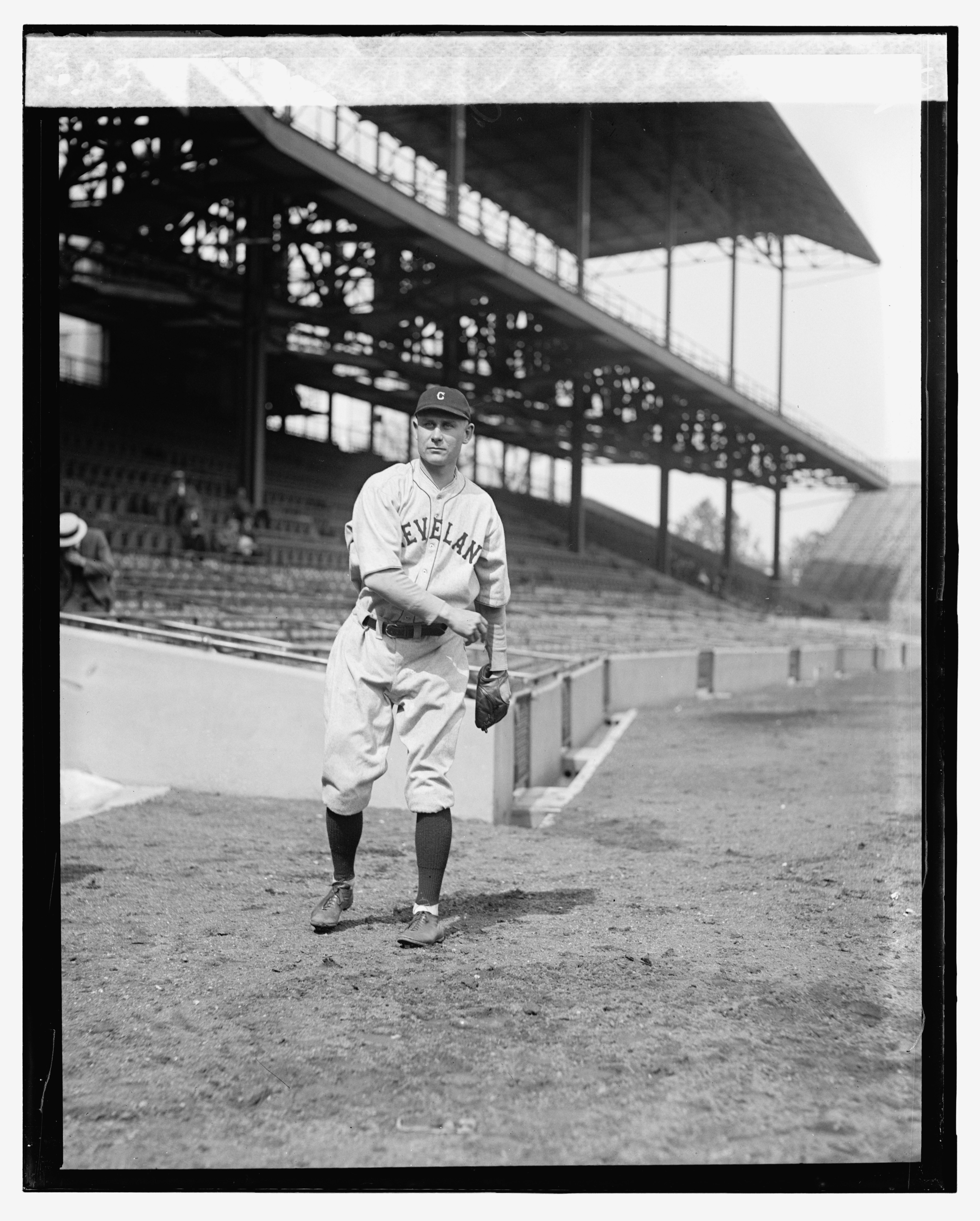 Title: Levson, Cleveland, 1924 Abstract/medium: National Photo Company Collection (Library of Congress) Physical description: 1 negative